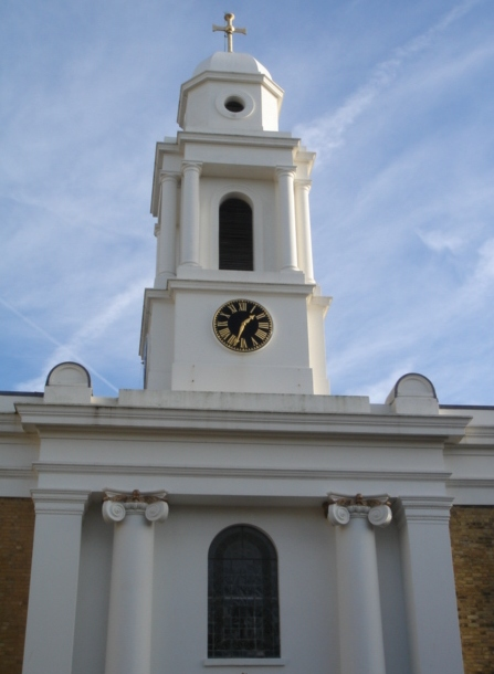 Tower and cupola at west end of St George's Church, Kemptown, Brighton